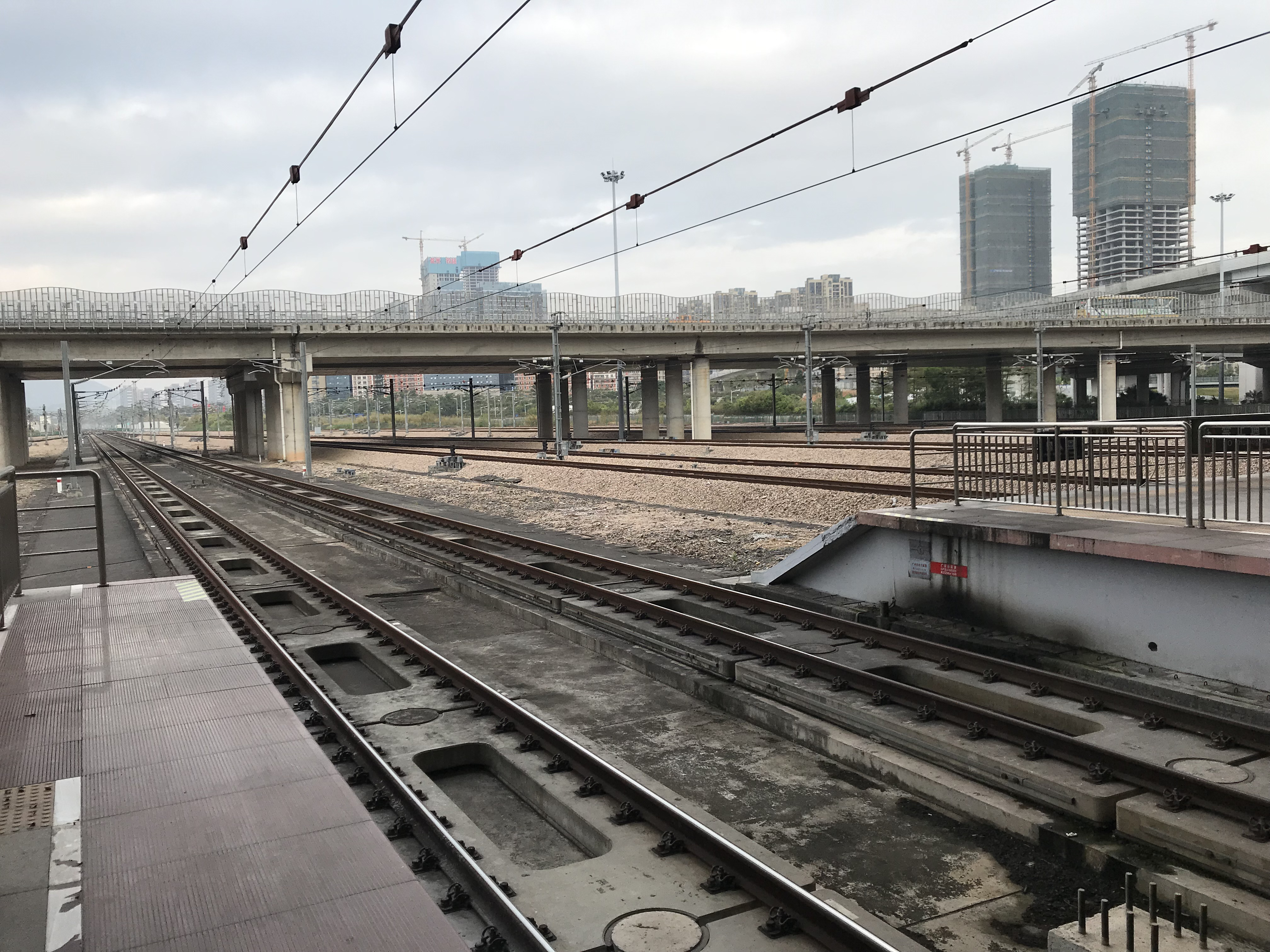 201901 Main Tracks of XRL at Shenzhenbei Station